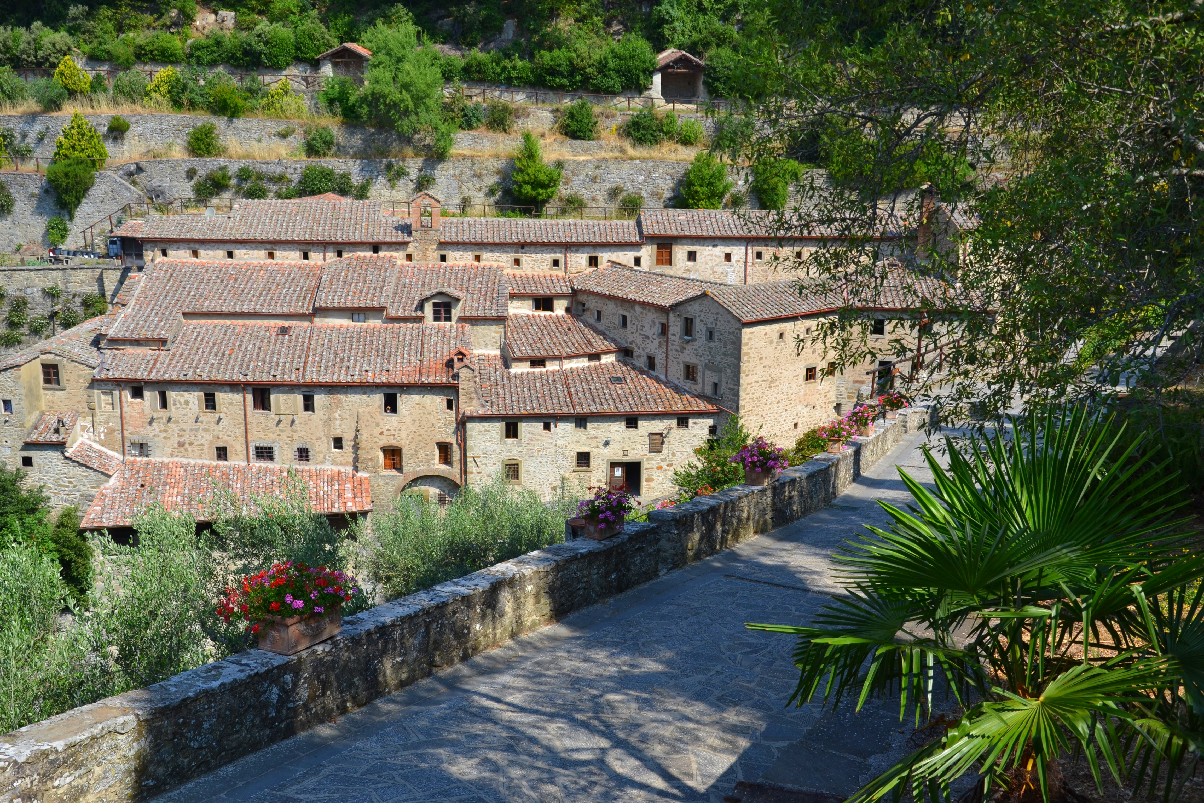 Cortona, Italy